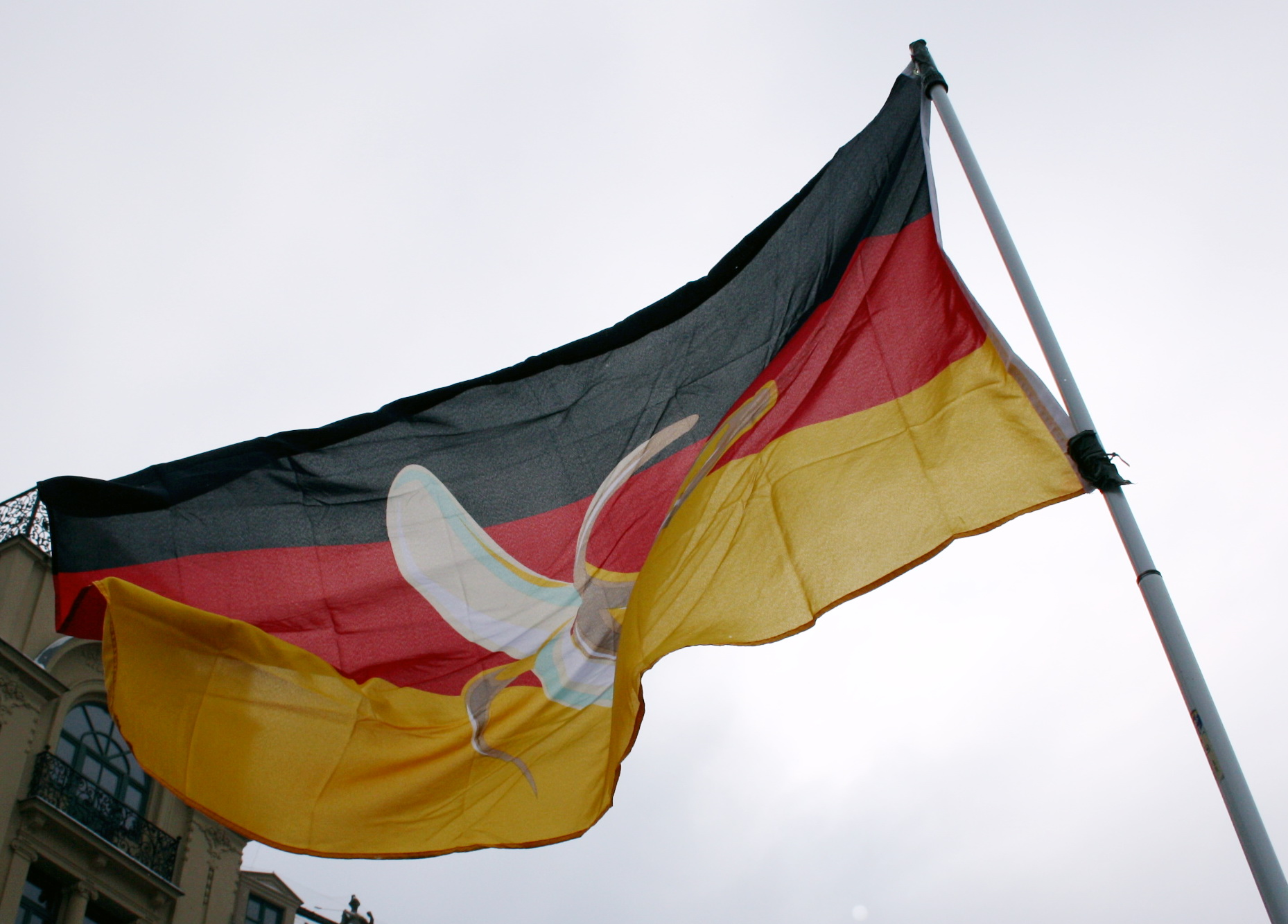 February 11th, 2012 Protest anti ACTA in Munich, "banana republic" flag